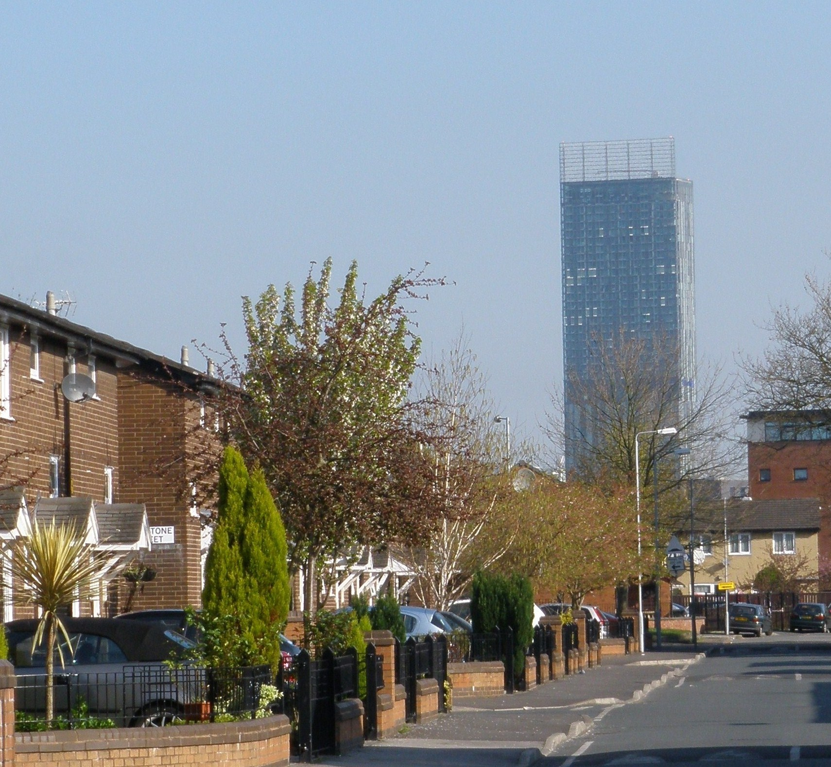 Beetham tower from a street in Moss Side Alexandra Park estate. Manchester